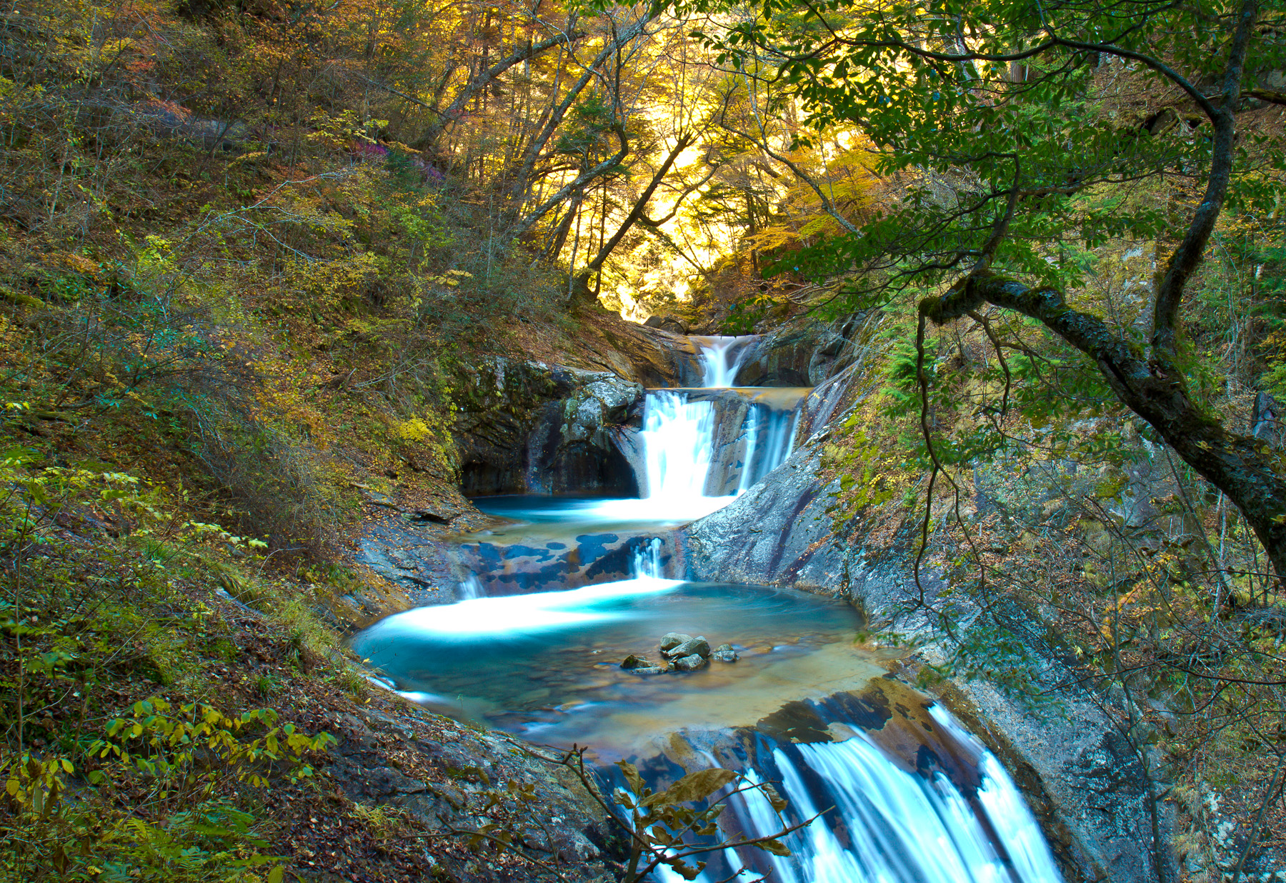 Waterfalls in Nishizawa Valley.